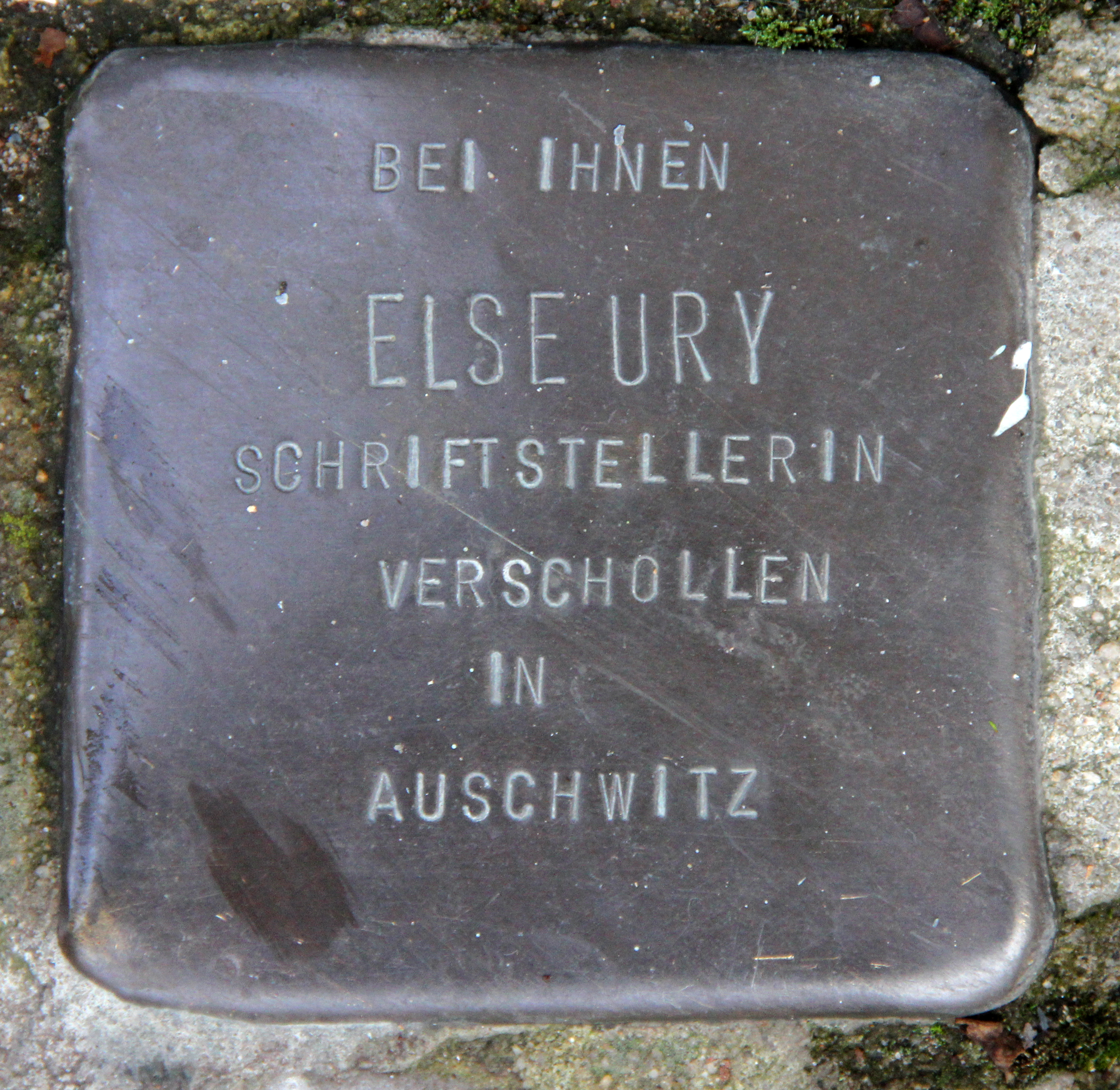 "Stolperstein" (stumbling block), Else Ury, Solinger Straße 10, Berlin-Moabit, Germany